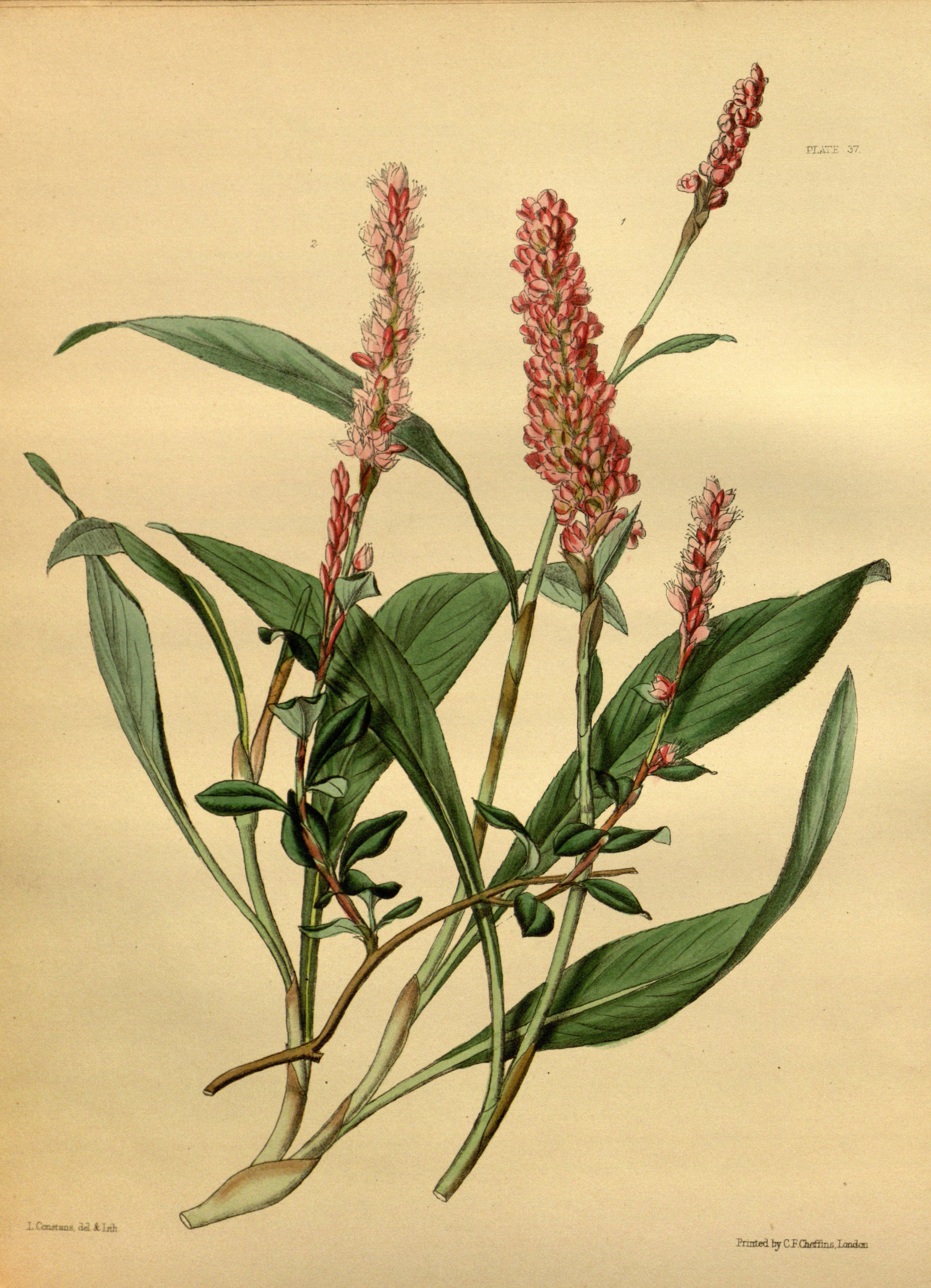 Bistorta affinis (D.Don) Greene, syn. Polygonum affine D. Don, Persicaria affinis (D. Don) Ronse Decr., Polygonum brunonis Wall.